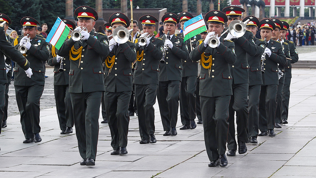 An Army band from the Republic of Uzbekistan in Russia during a festival.